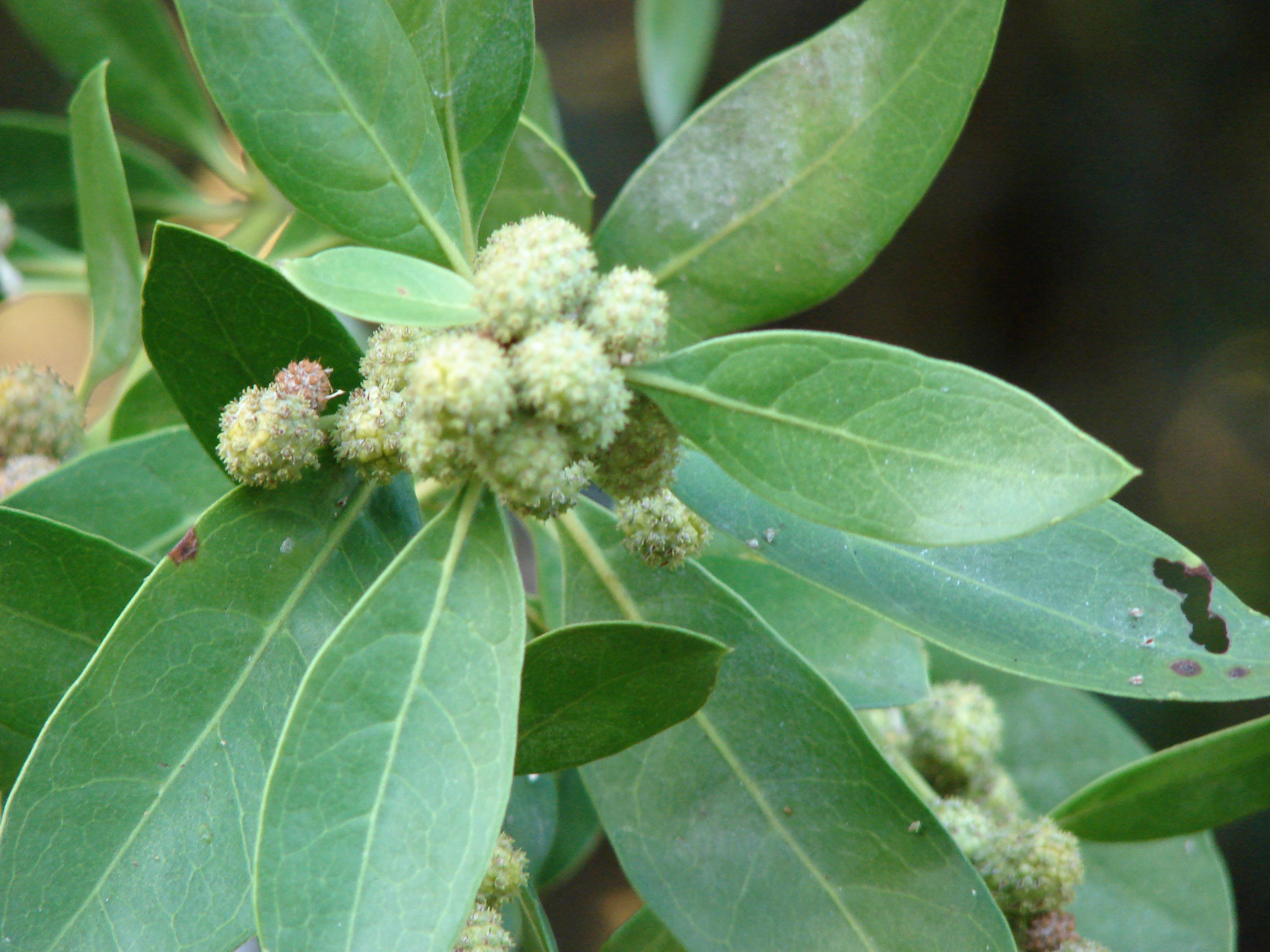 Conocarpus erectus (leaves and fruit). Location: Oahu, Ala Moana Beach Park